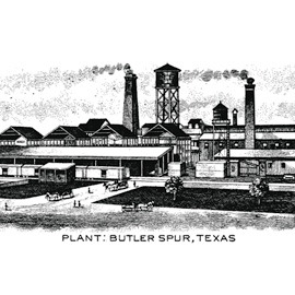 Historical drawing of the Butler Brick plant in Austin, Texas.